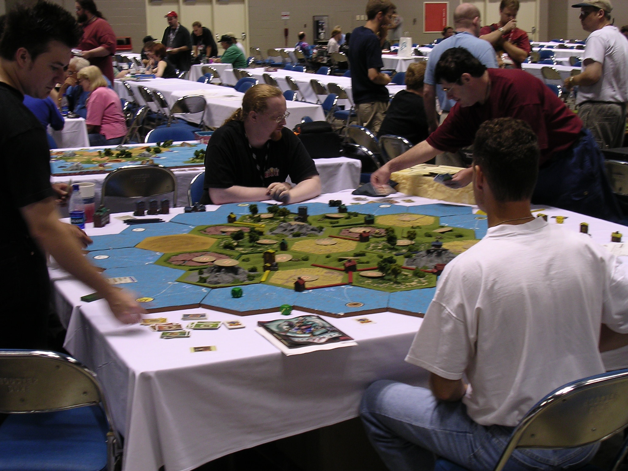 Photograph of players playing "Settlers of Catan" at Gen Con. The board is a custom, exceptionally large version. The photograph is unmodified from the digital camera. (Original: Photograph of players playing Settlers of Catan at Gen Con Indy on 2003-07-24. The board is a custom, exceptionally large version. The photograph is unmodified from the digital camera. I, User:Alan De Smet, took this photograph and holder the copyright on the image. I license it under the Creative Commons Attribution ShareAlike 2.5 and 3.0 licenses. Credit should be to "Alan De Smet".}